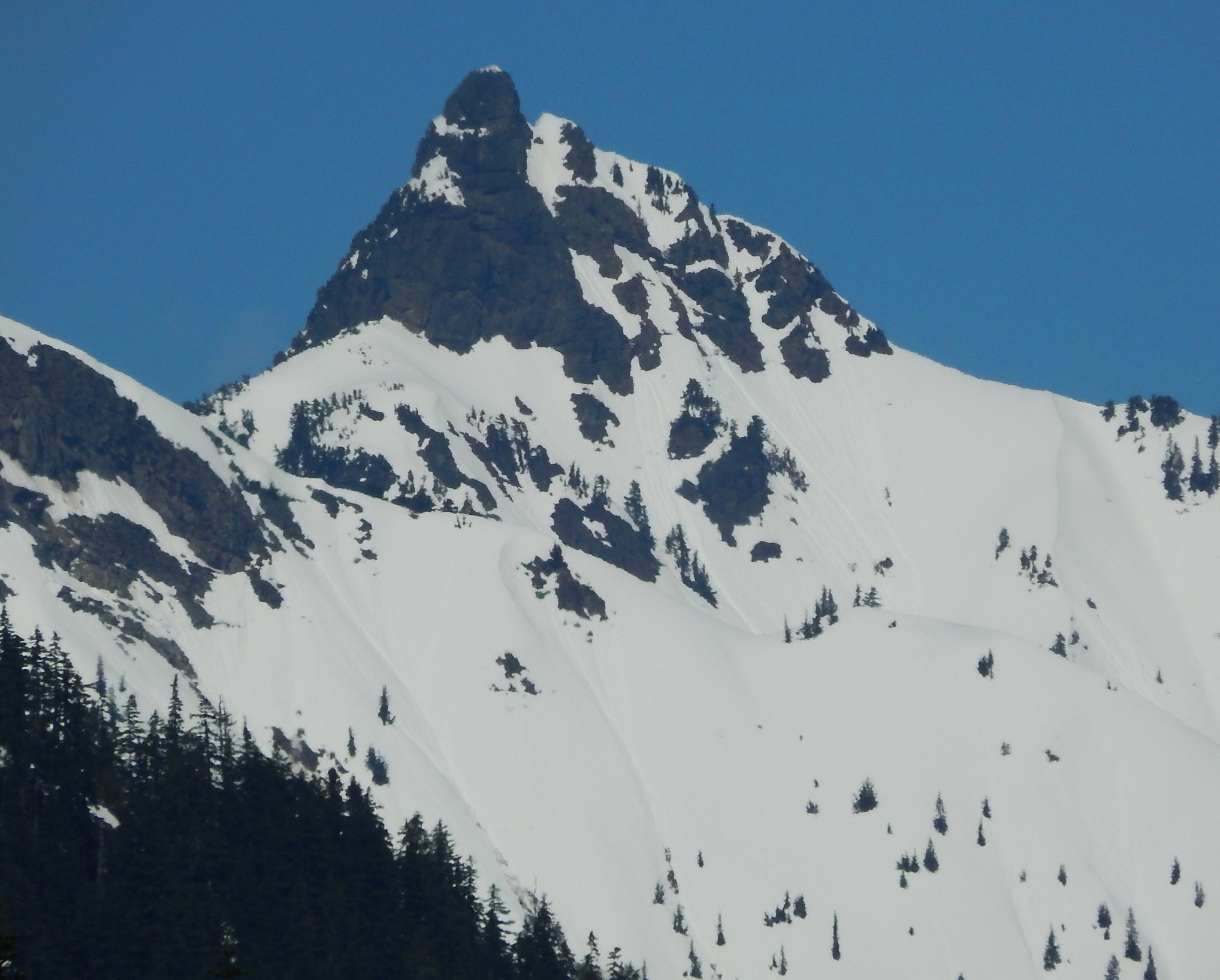 Huckleberry Mountain seen from Hyak area near Snoqualmie Pass